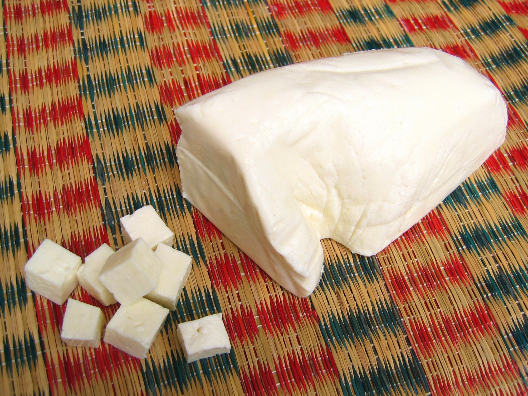 Paneer - Indian cheese from cow’s milk, bought and produced in Germany